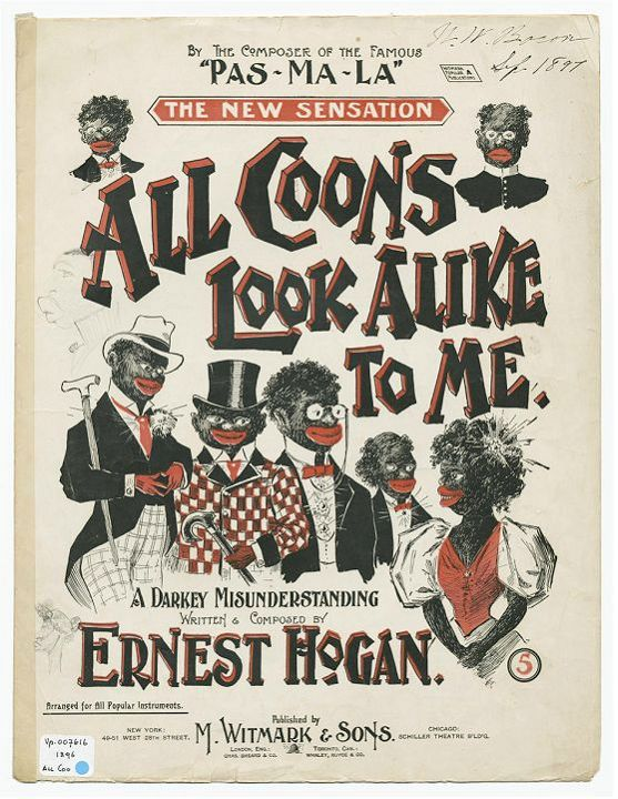 Sheet music cover to "All Coons Look Alike to Me", written by Ernest Hogan